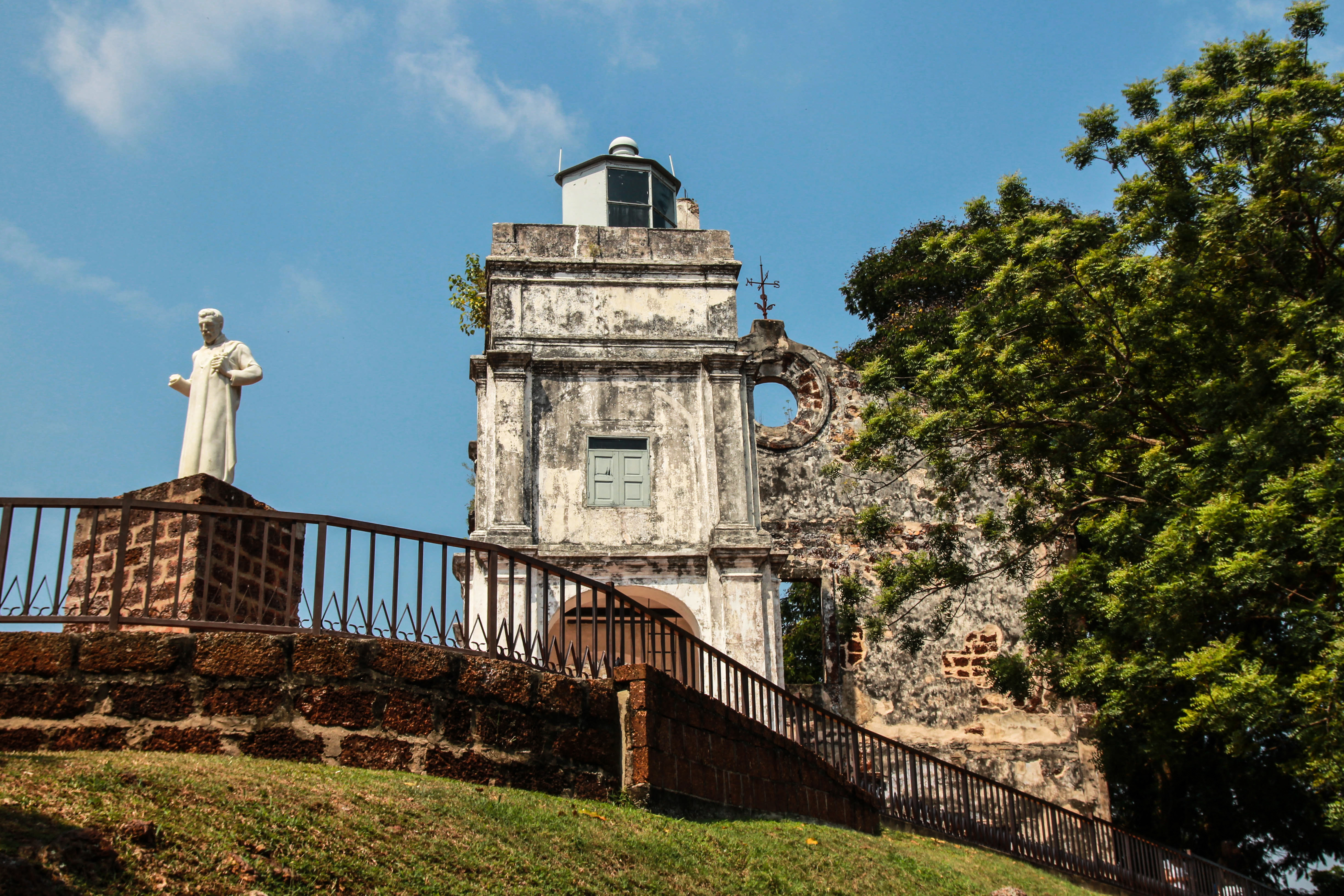 Melakka